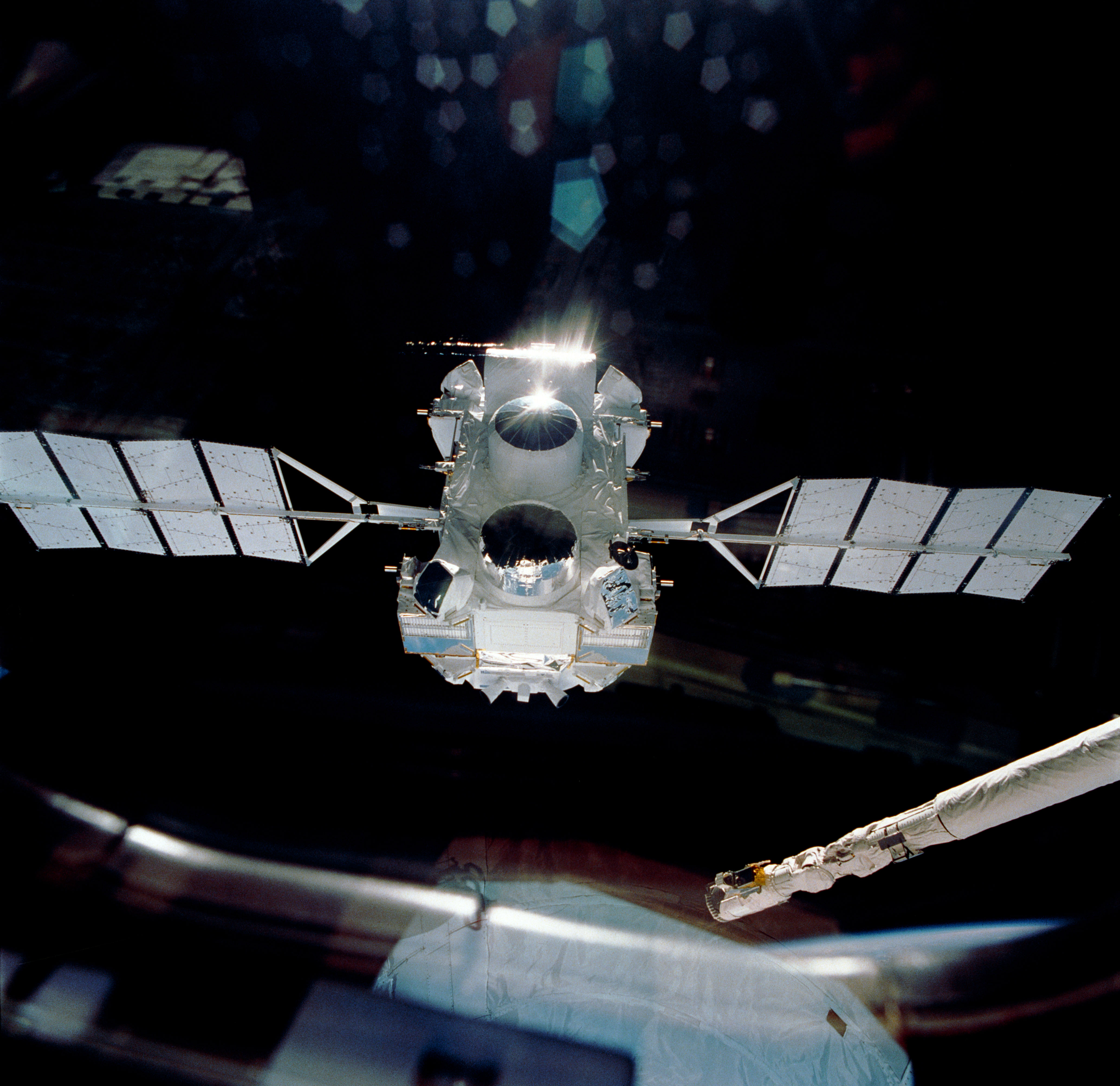 NASA's Compton Gamma Ray Observatory drifts away from the space shuttle Atlantis on April 7, 1991, following its deployment during the STS-37 mission.